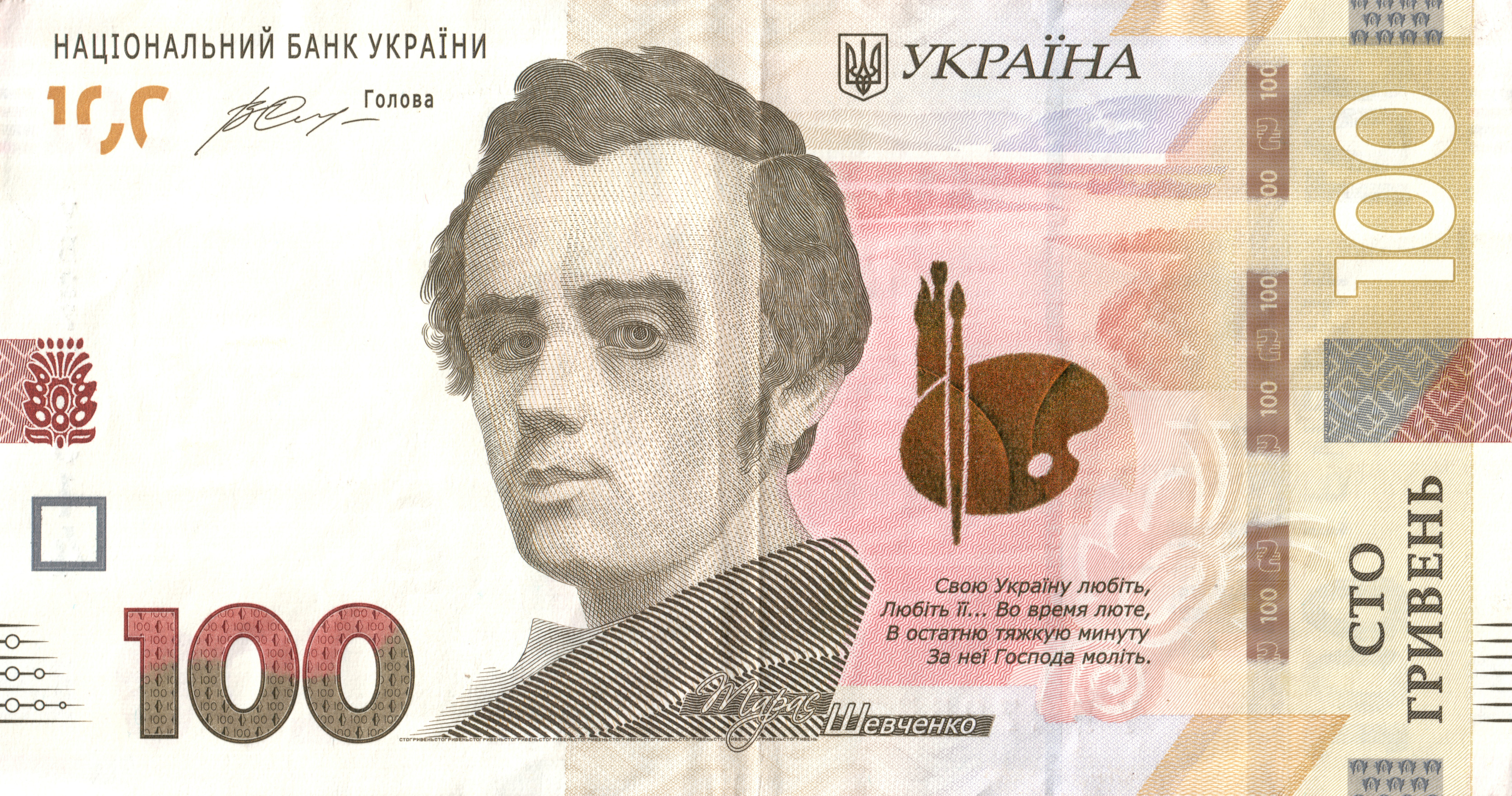 100 гривень, 2015